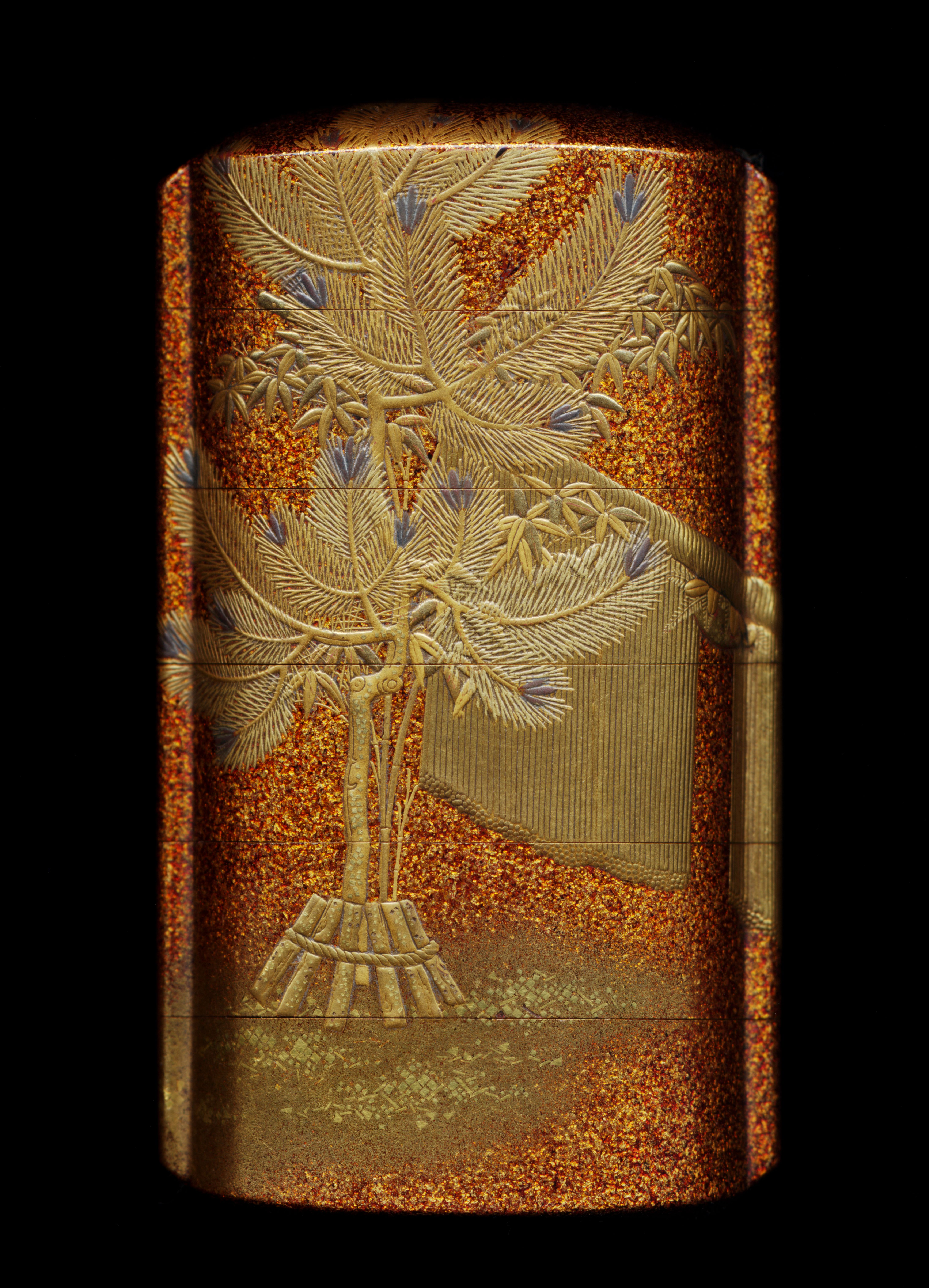 19th century 5-case lacquer inro. Design of pine trees supporting a bamboo fence, in gold takamakie with kirigane, on a nashiji ground. Interiors are nashiji with fundame rims. 3.75 inches (80 mm) tall.